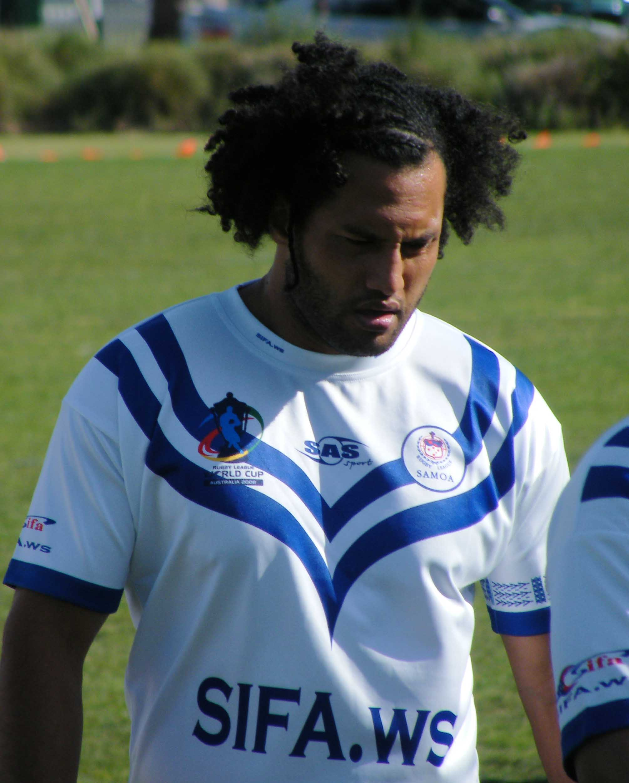 RLWC 2008 - Samoa v France at Penrith. Samoan winger Francis Meli.